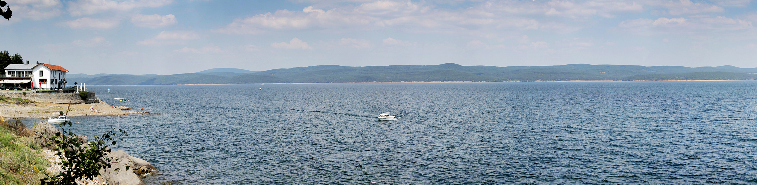 panoram view of Iskar Reservoir